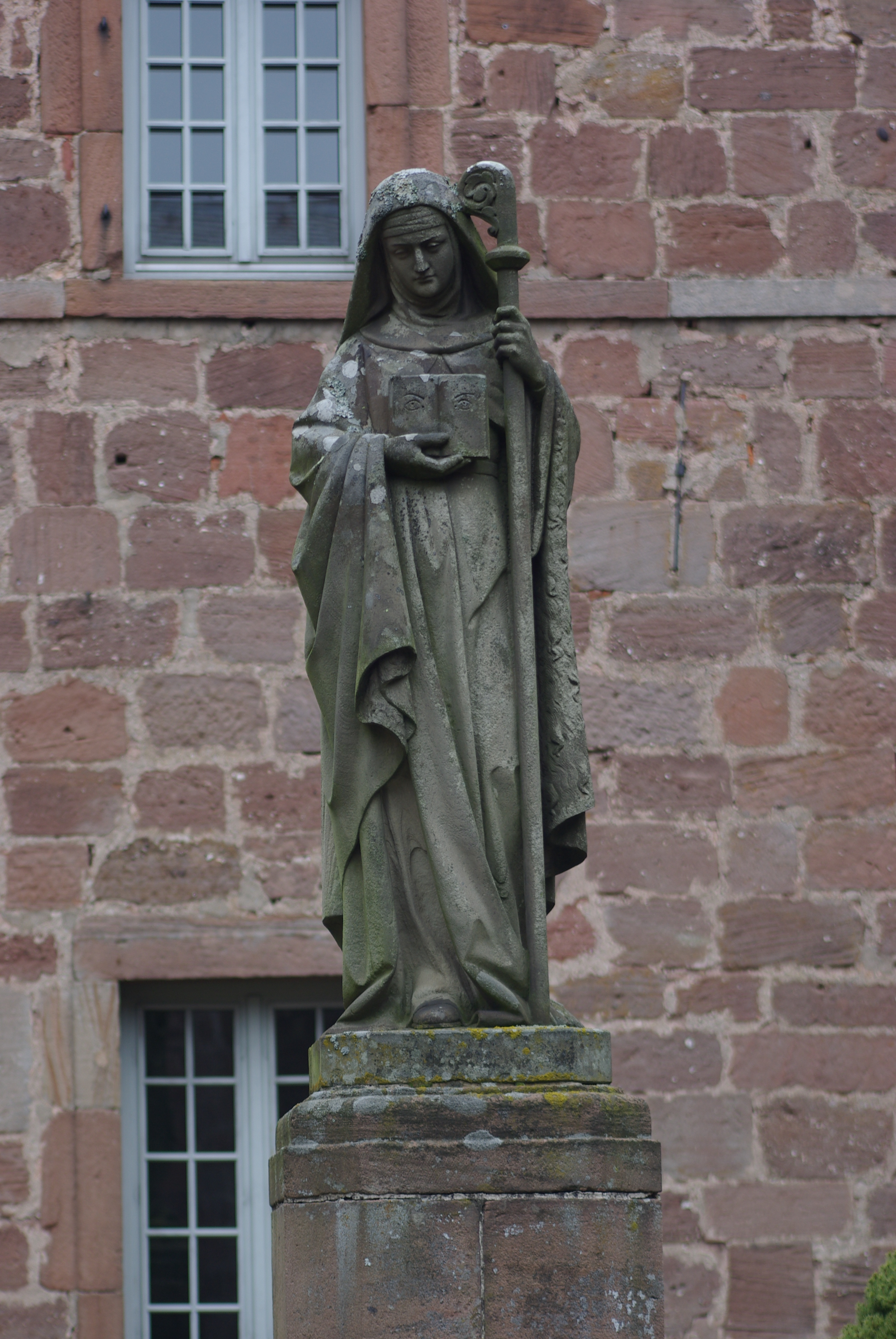 Mont Sainte-Odile